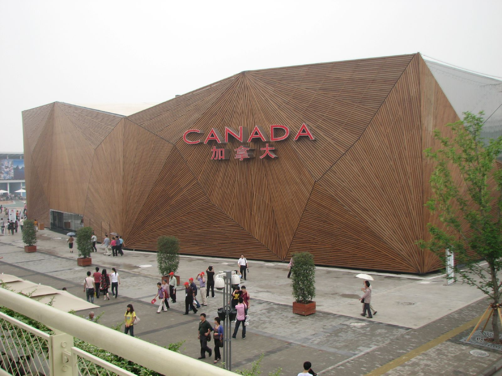 Canada Pavilion of Expo 2010